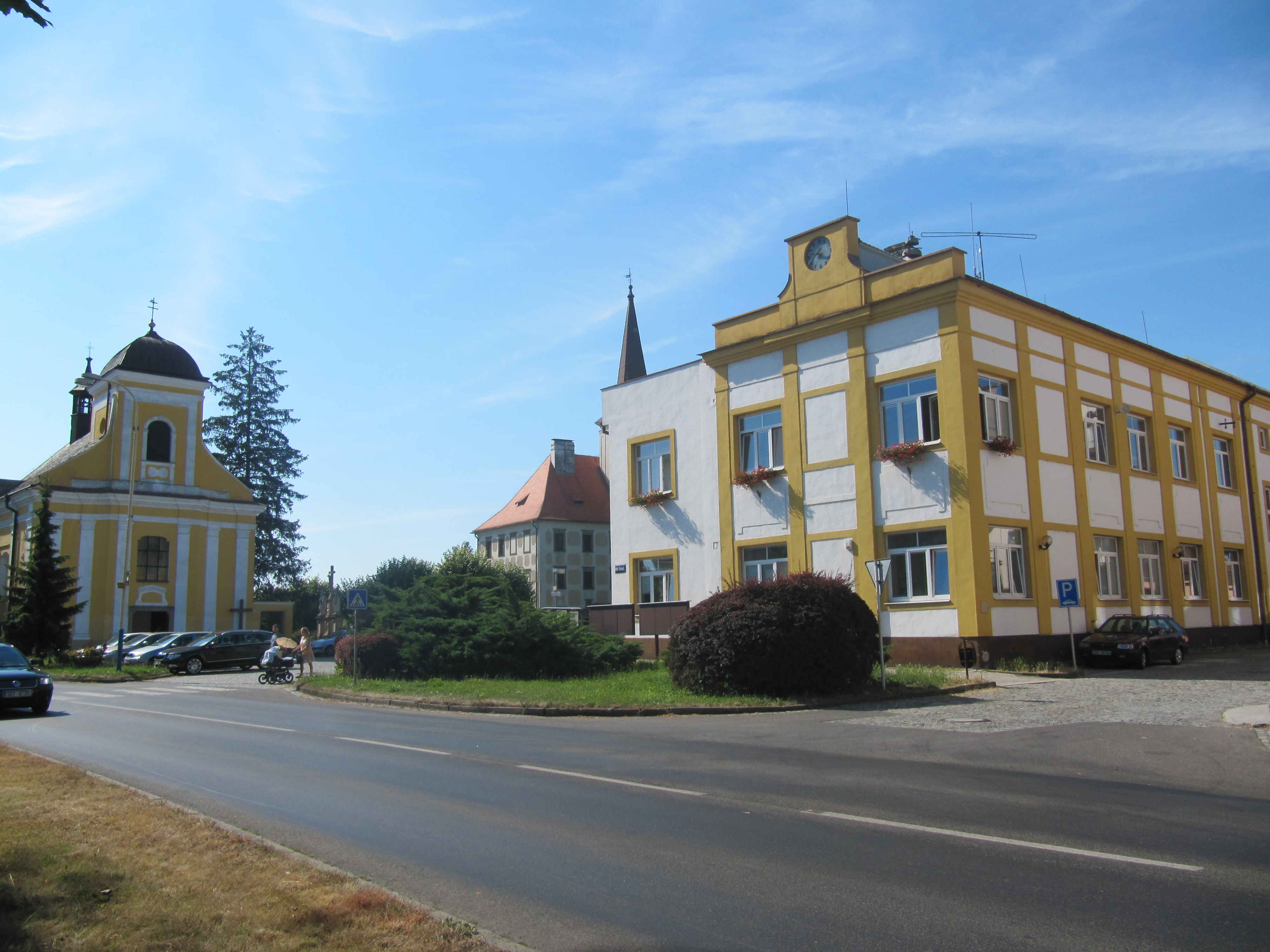 Chropyně, Kroměříž District, Czech Republic.